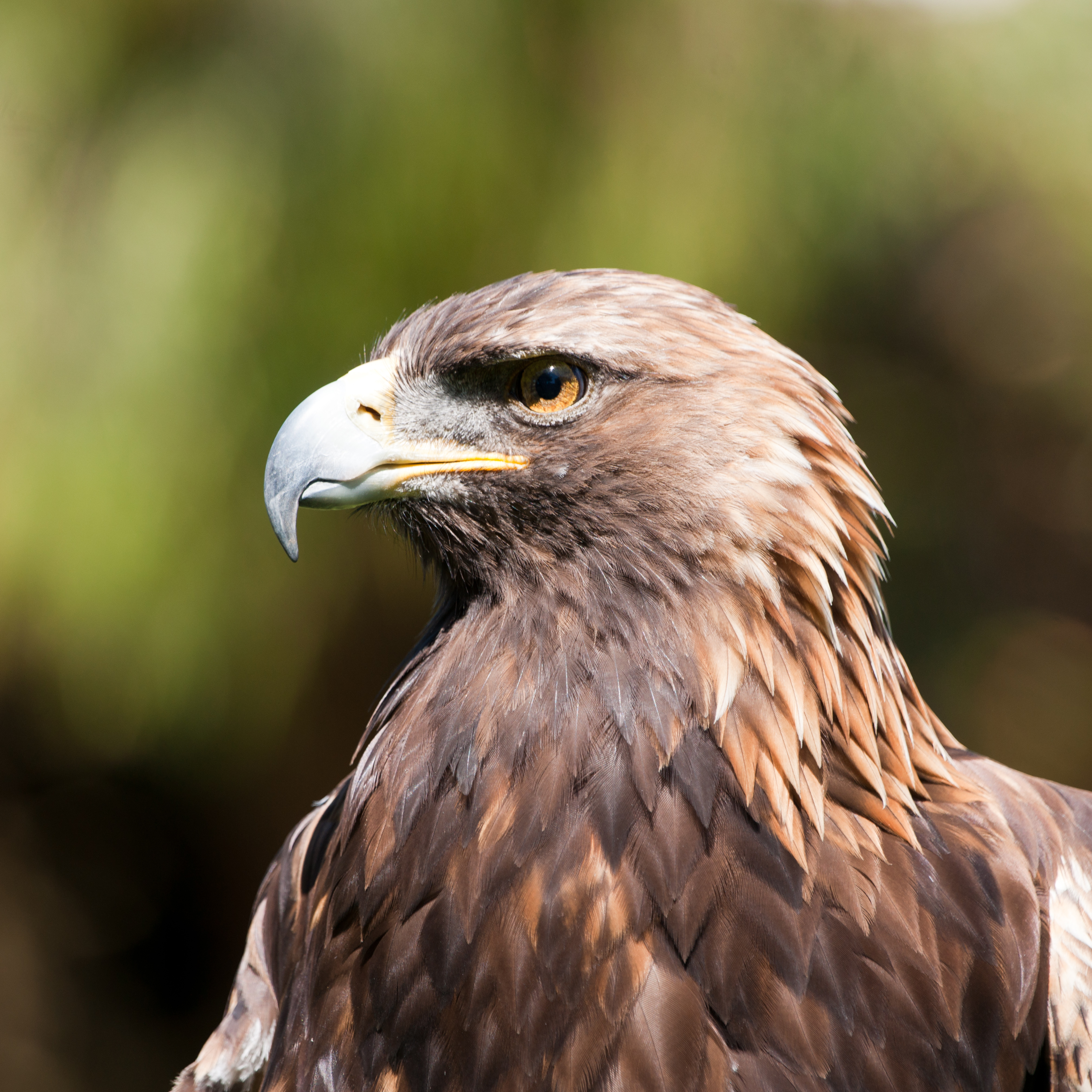 A Golden Eagle at San Francisco Zoo, California, USA.